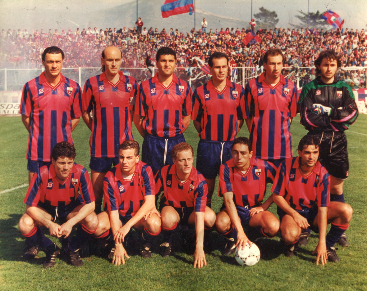 casertana football club 1908 team winning c1 championship 1990 1991